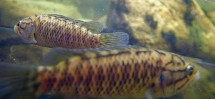 Two Cape kurpers, from Jan du Toit's River, Western Cape, South Africa